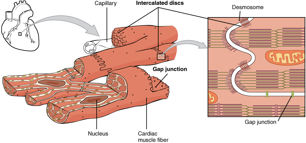 Version 8.25 from the Textbook OpenStax Anatomy and Physiology Published May 18, 2016